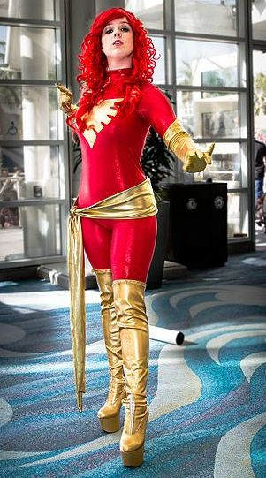 Costume of the fictional character Dark Phoenix. cosplay